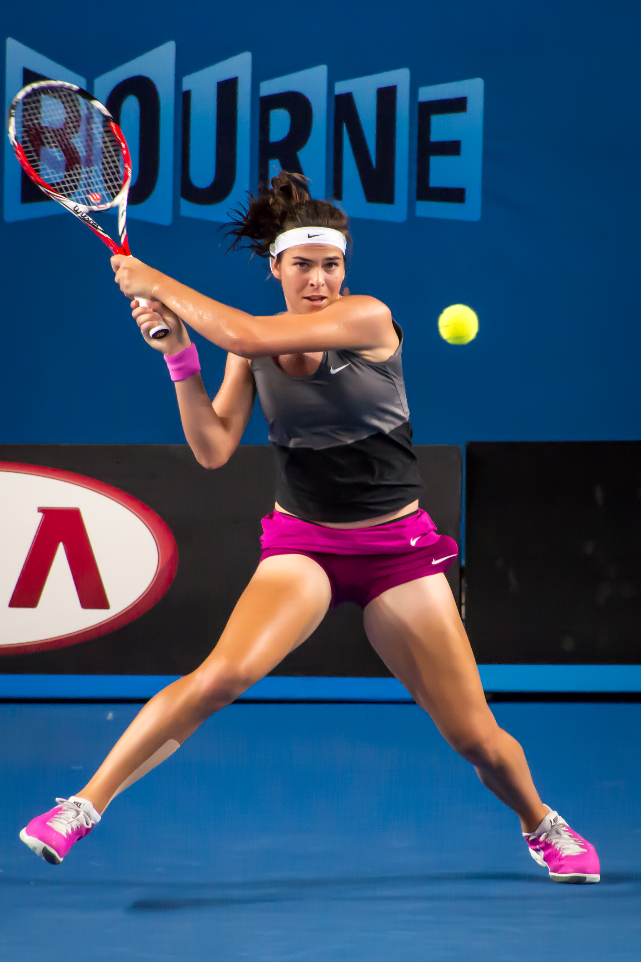 Ajla Tomljanovic (CRO) during her 2nd round 3-set loss to Sloane Stephens (USA) [13] at the 2014 Australian Open on Margaret Court Arena.